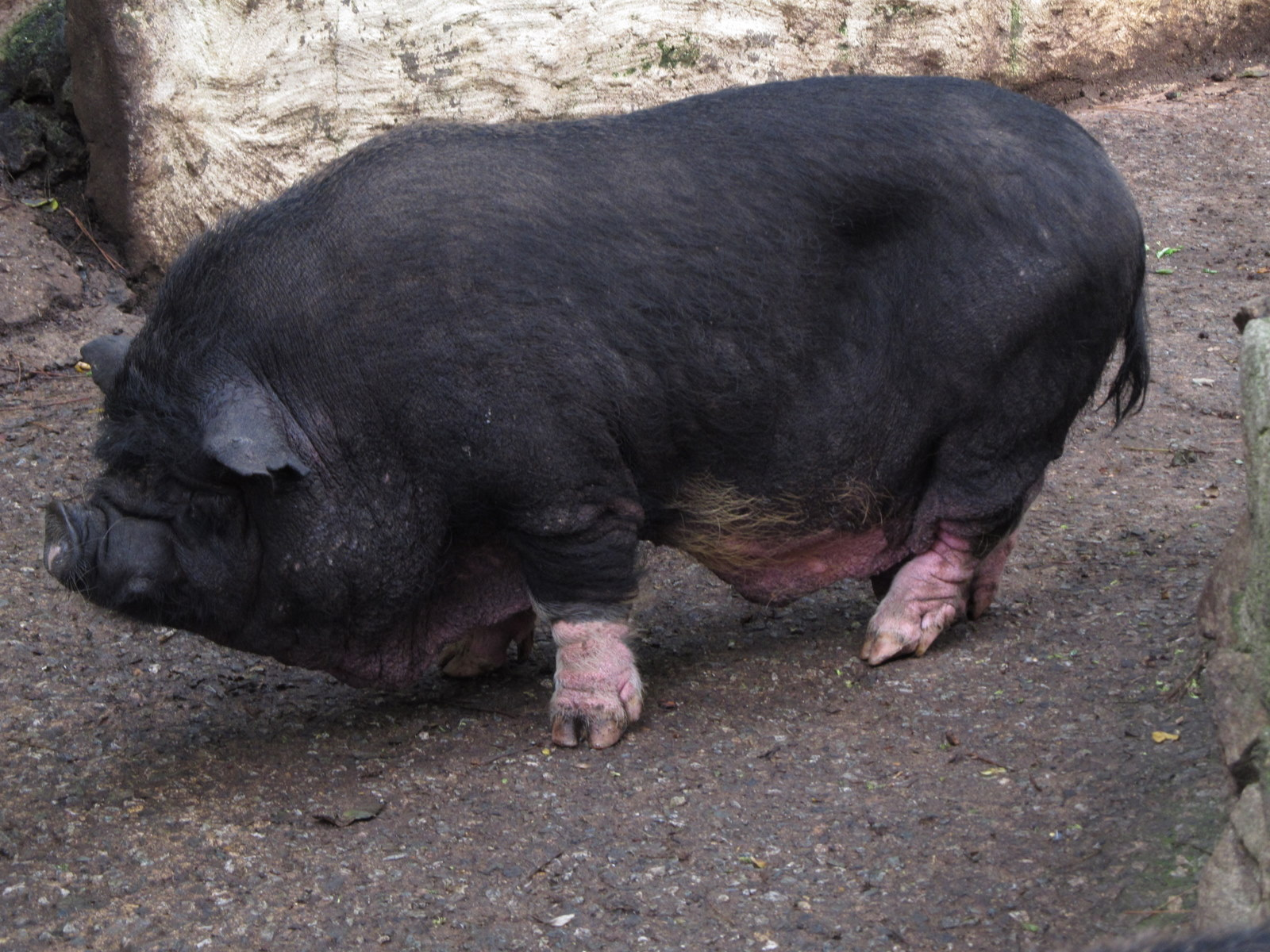 Pont-Scorff Zoo